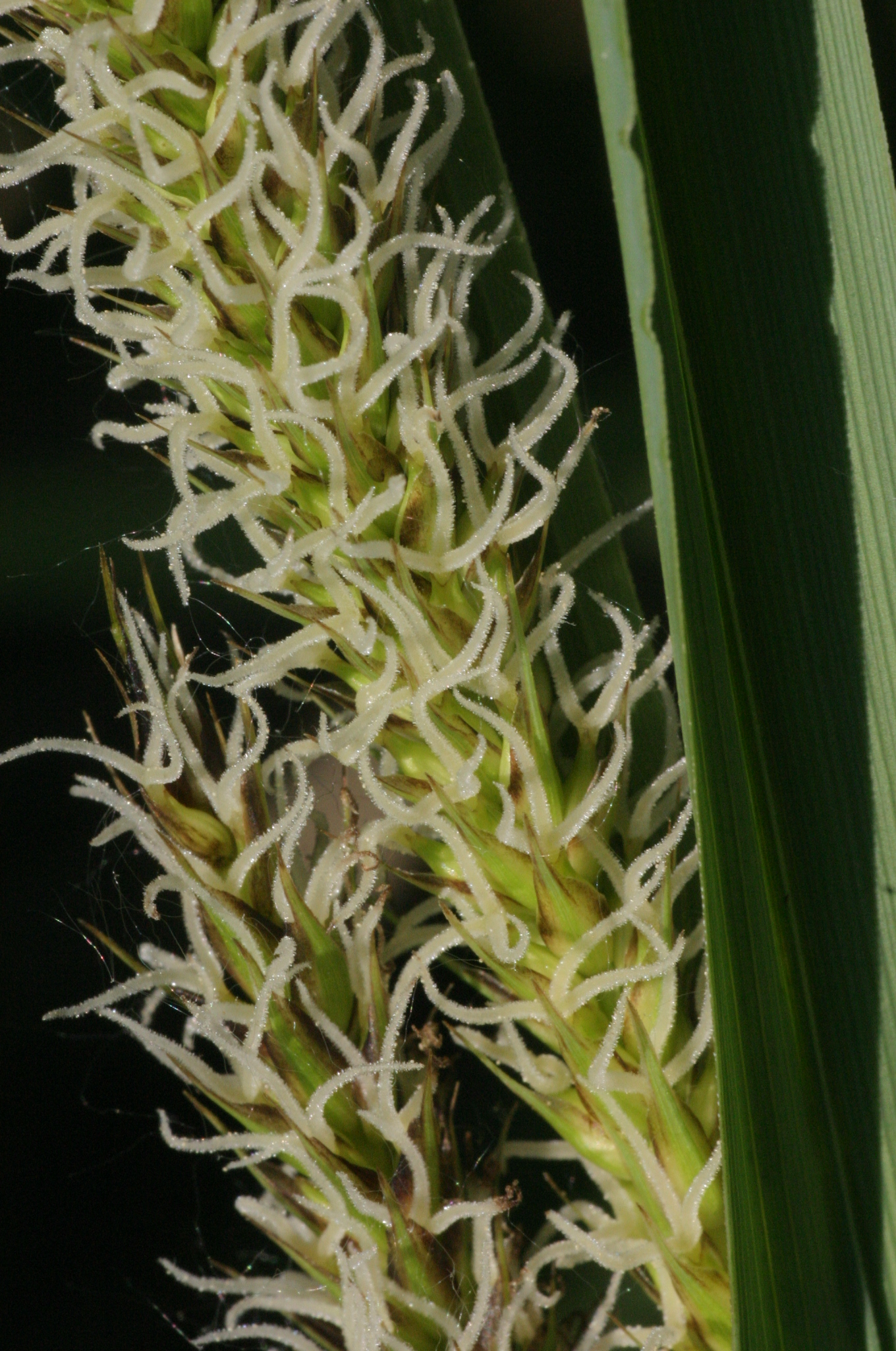 Carex riparia